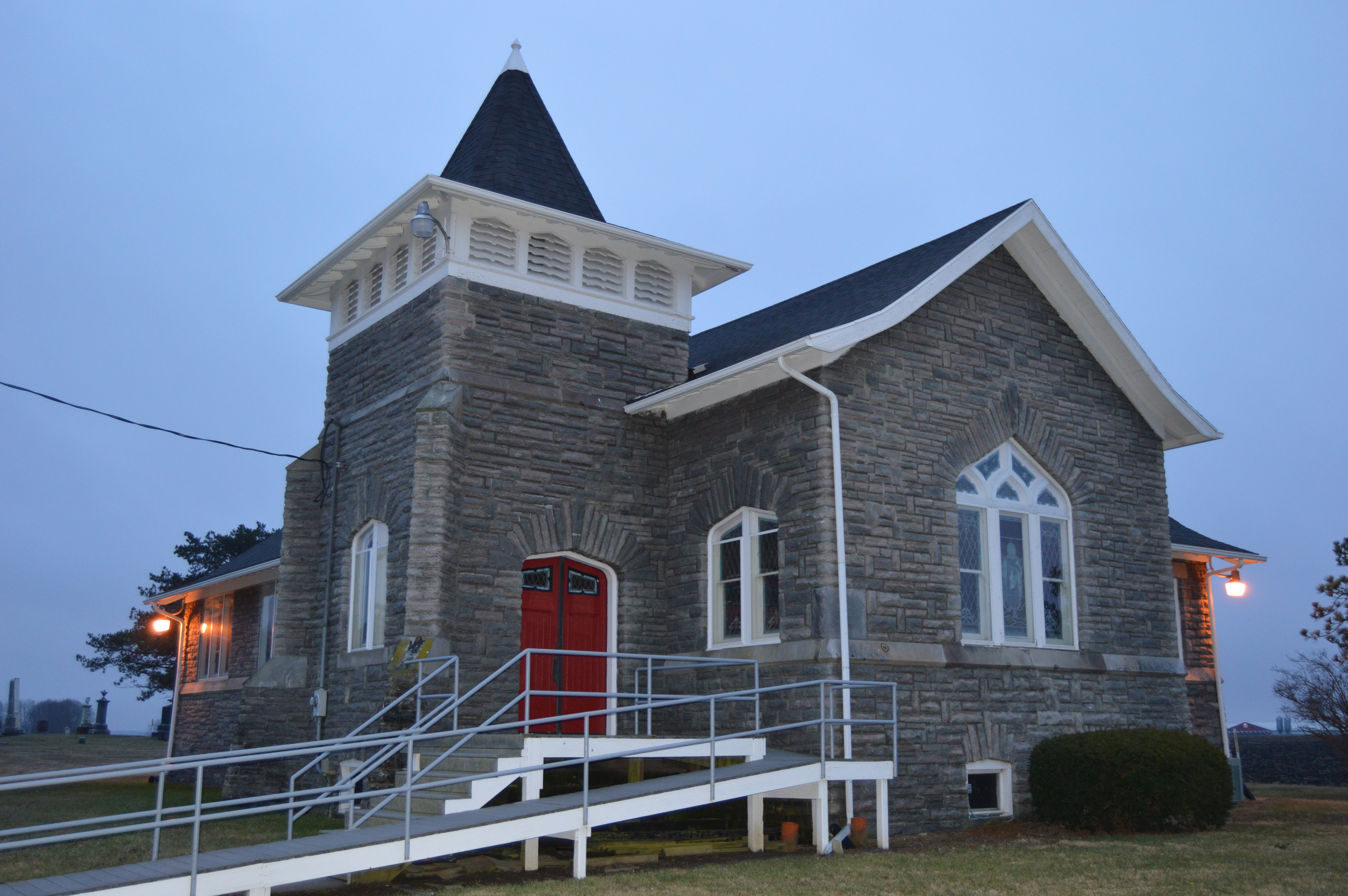 Front and northern side of the former Monnett Memorial M. E. Chapel, located at 999 State Route 98 south of Bucyrus in Bucyrus Township, Crawford County, Ohio, United States. It is currently the home of a Baptist church; the sign (behind the photographer) reads "Lighthouse Baptist Church/Independent Fundamental/Sunday Meetings · 9:30, 10:45, 6:00". Built in 1901, it is listed on the National Register of Historic Places.